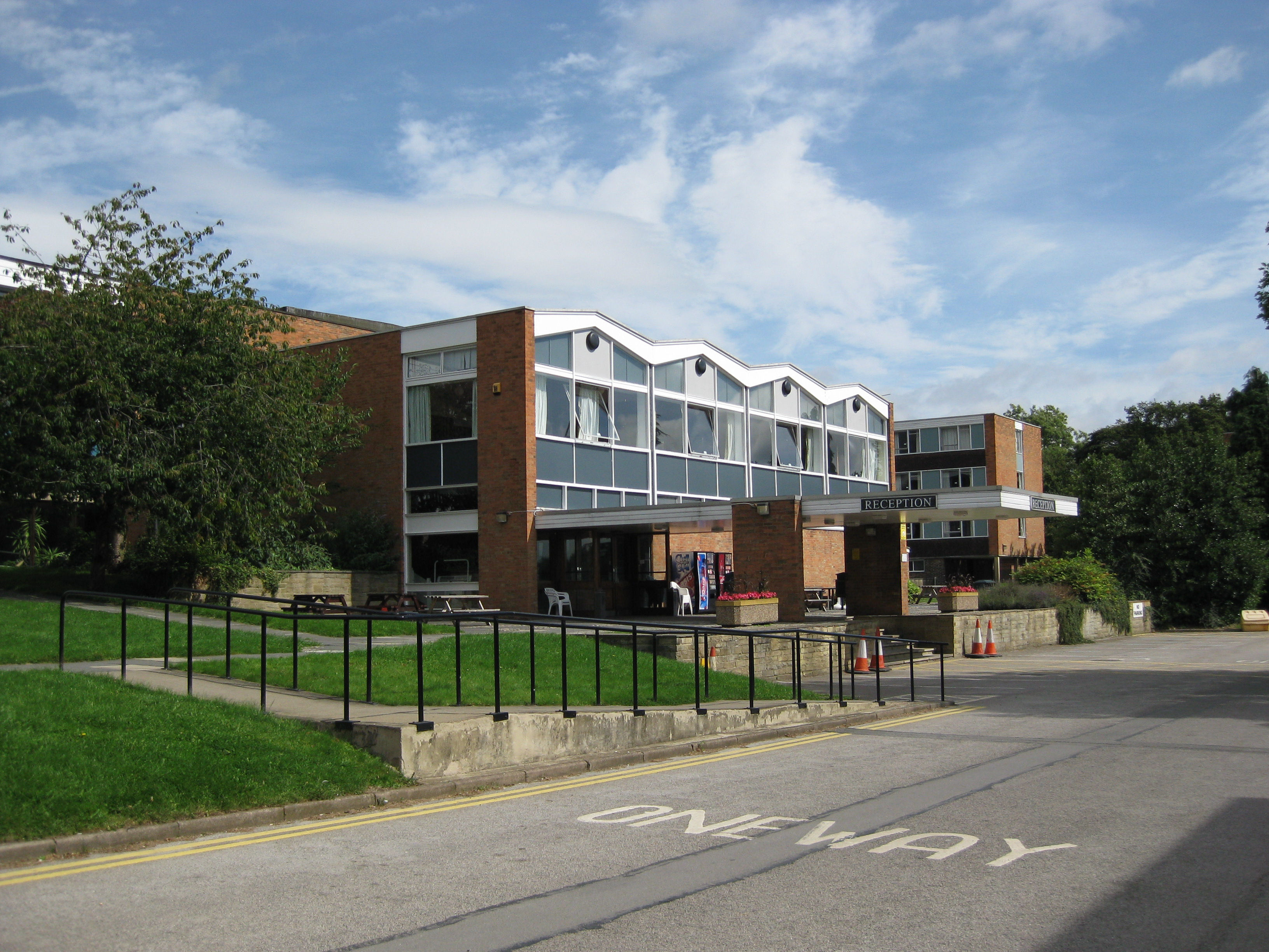 Bodington Hall student accommodation of the University of Leeds. LS16 5PT. Central facilities and reception.